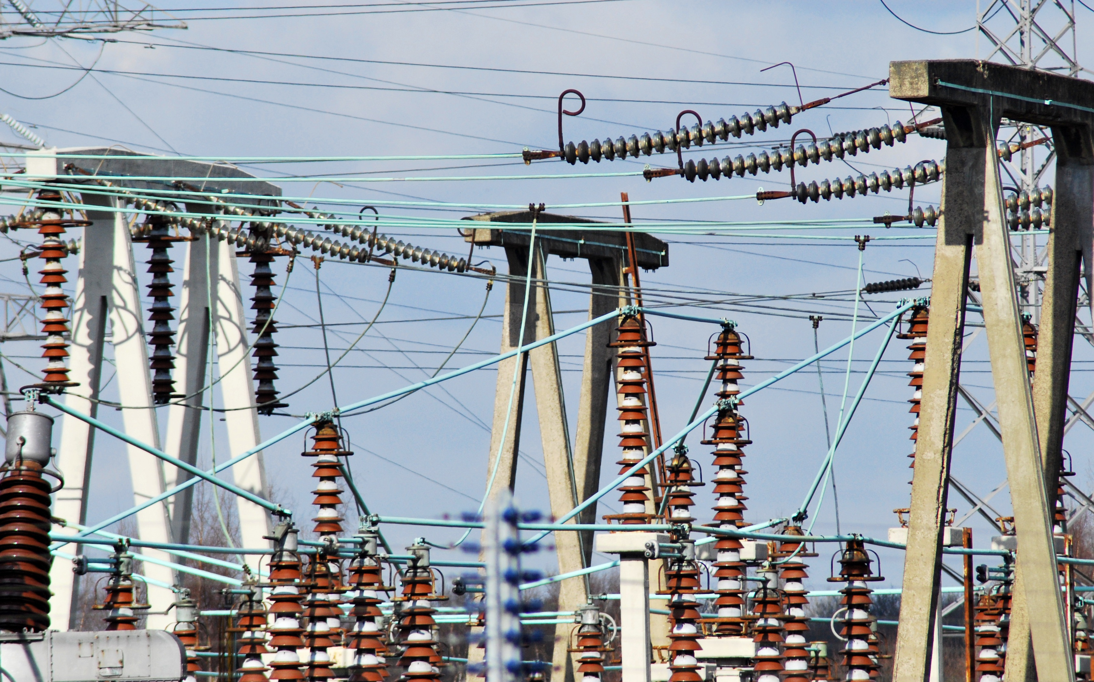 Power relays at Willington Power Station Derbyshire. Defunct